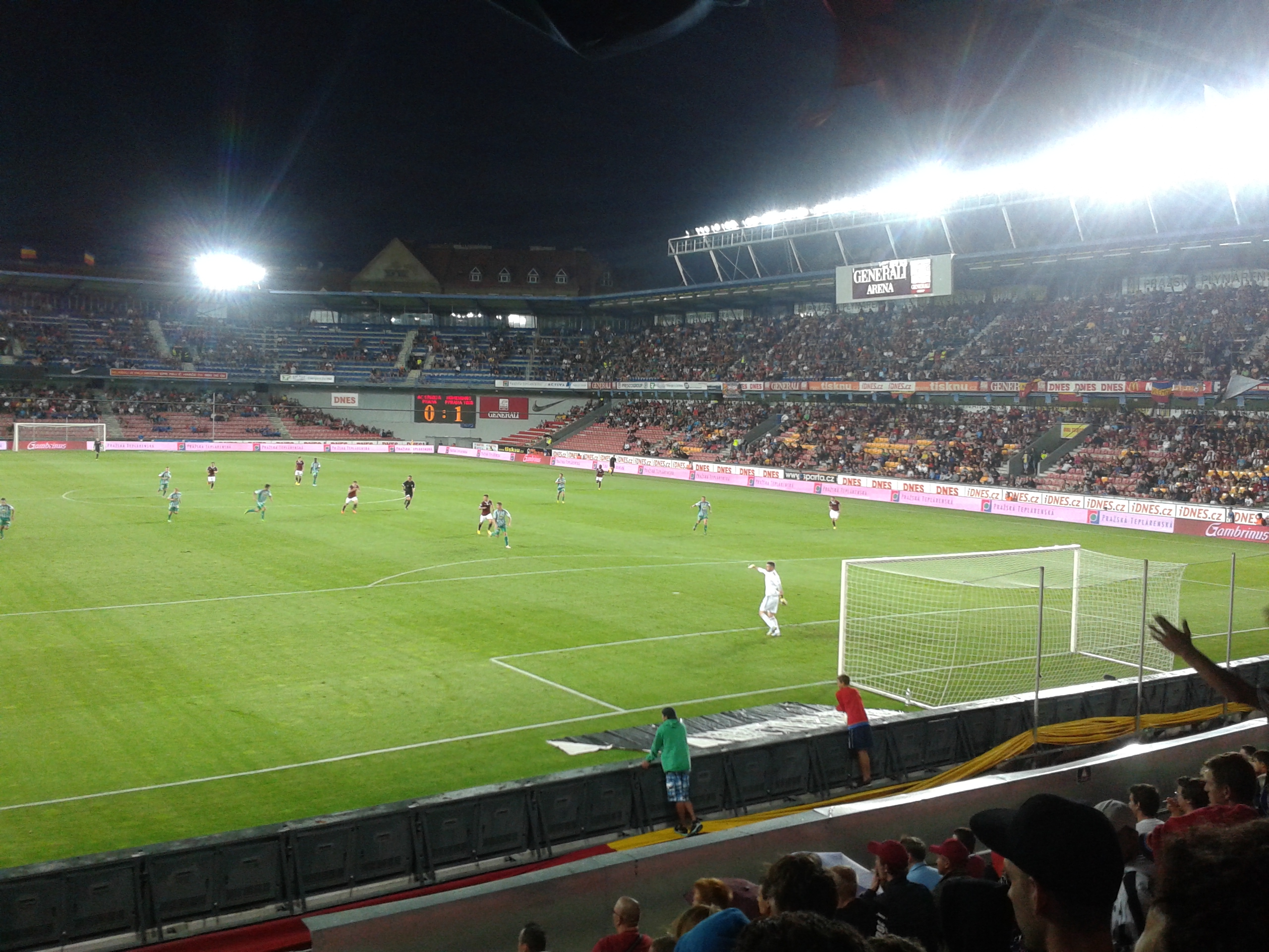 Generali Arena during an AC Sparta Game